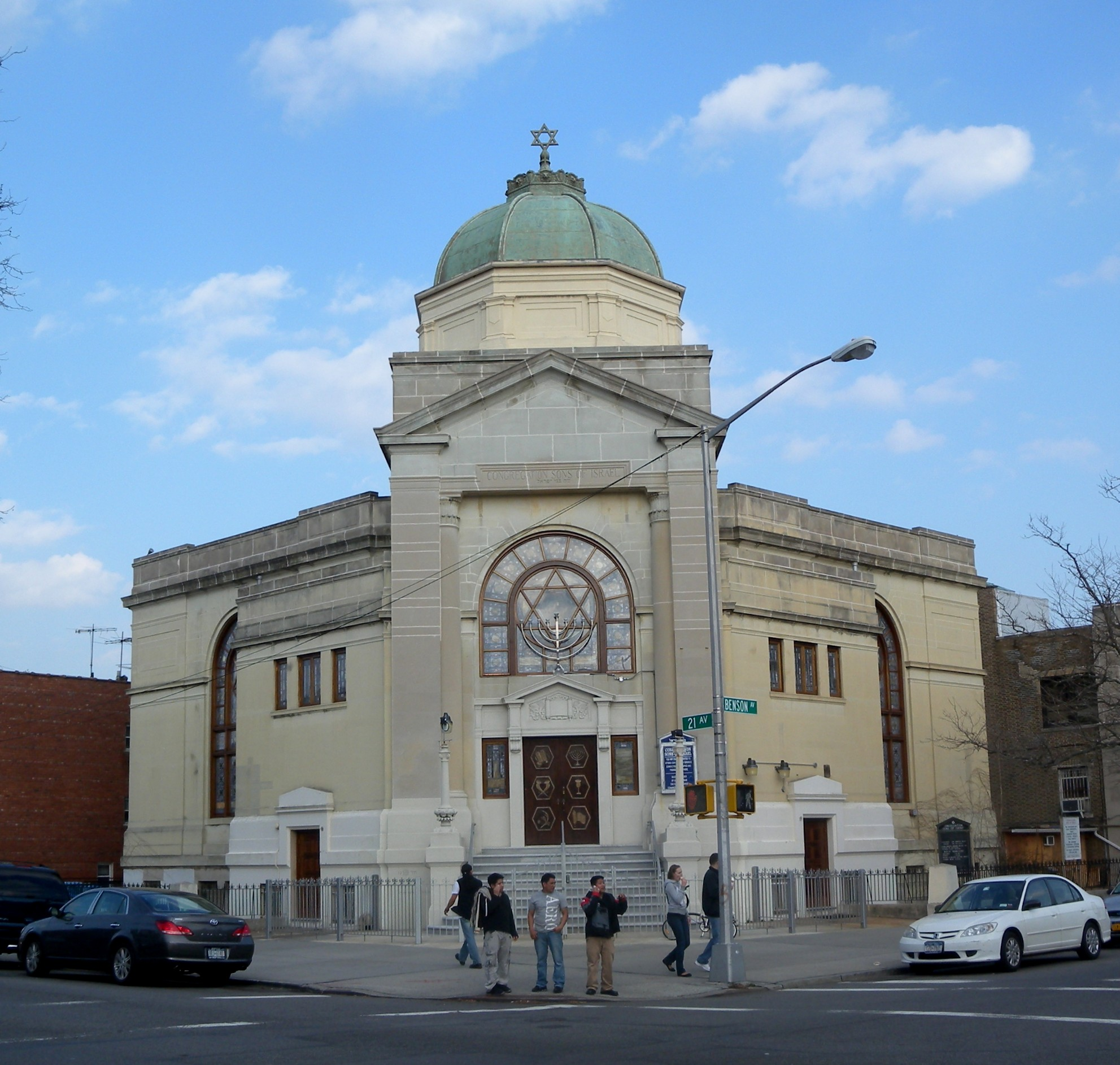 Looking northeast across Benson and 21st Avenues on a mostly sunny afternoon.